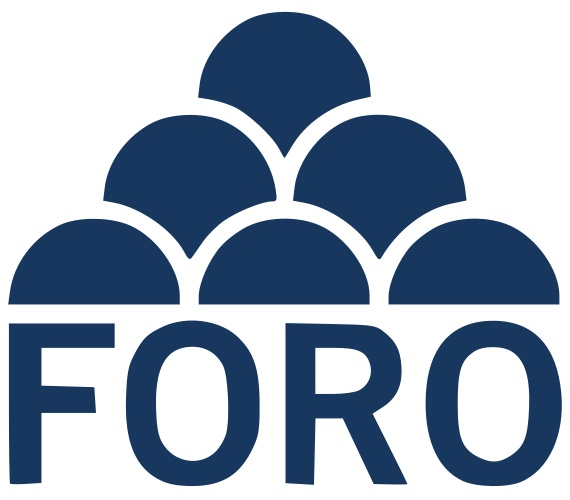 Foro Asturias Logo